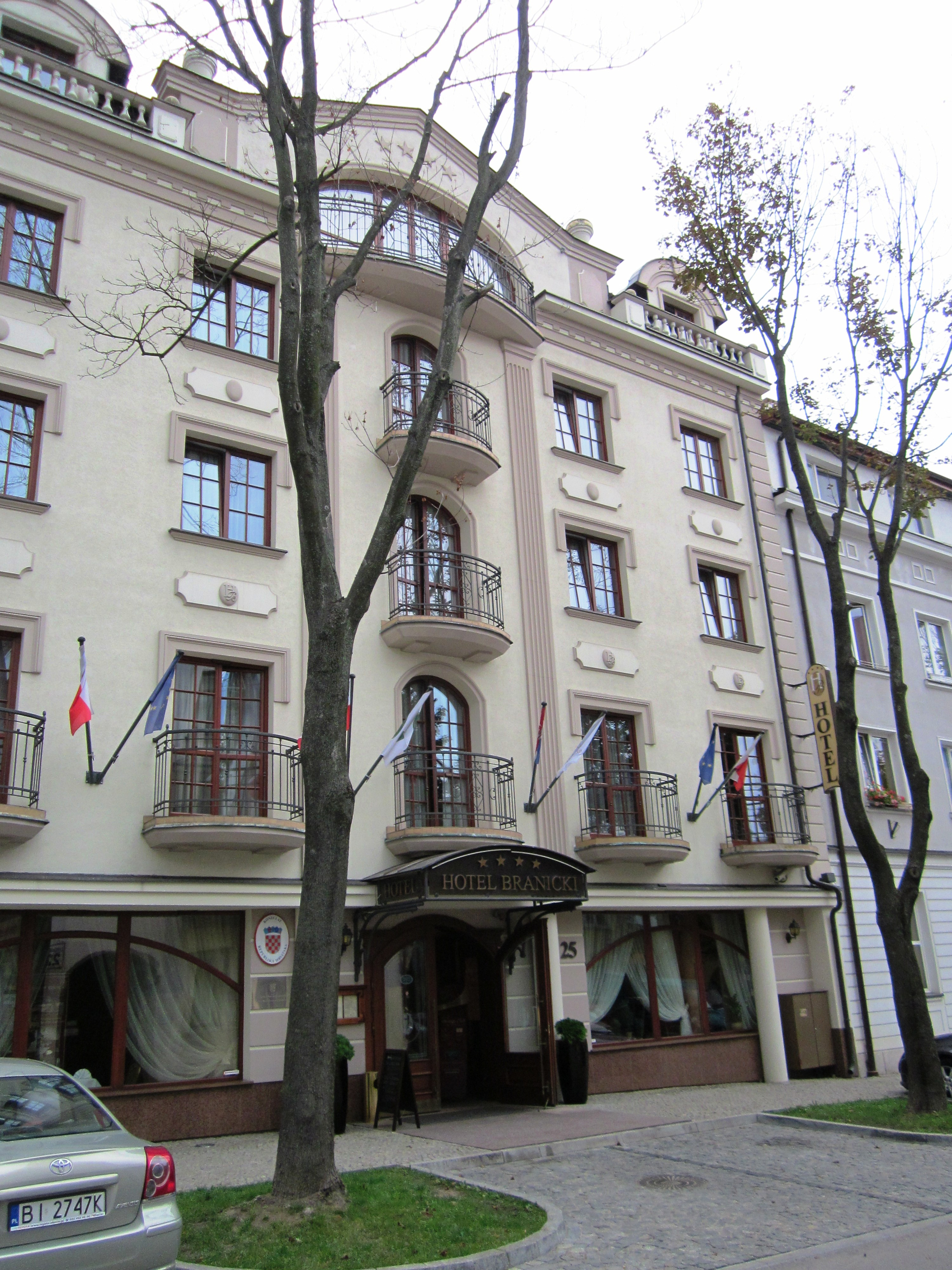 Branicki Hotel in Białystok